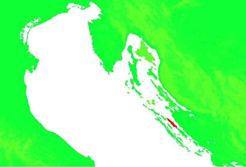 Island of Croatia Croatia - Ugljan.PNG